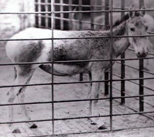 Syrian Wild Ass in London Zoo.